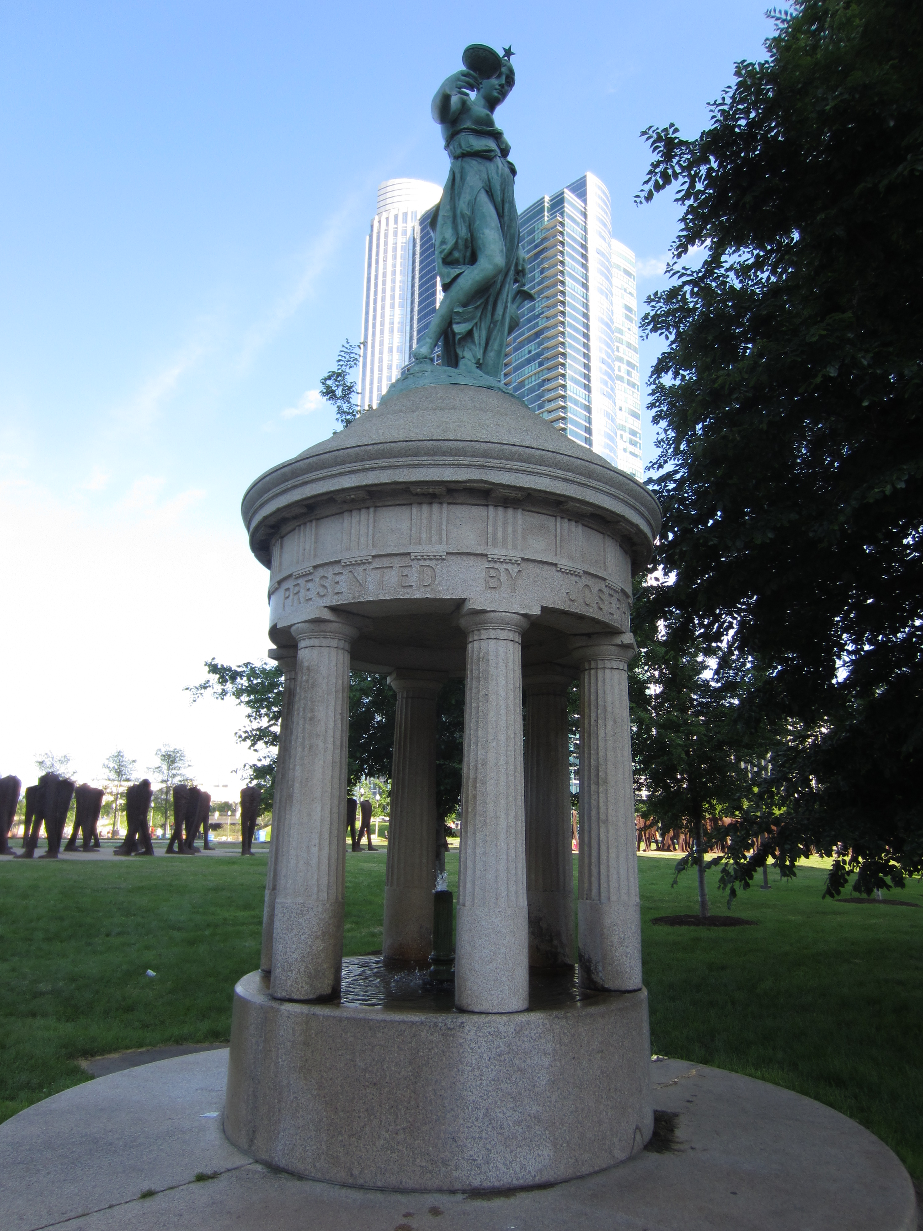 Chicago, Illinois, June 2015